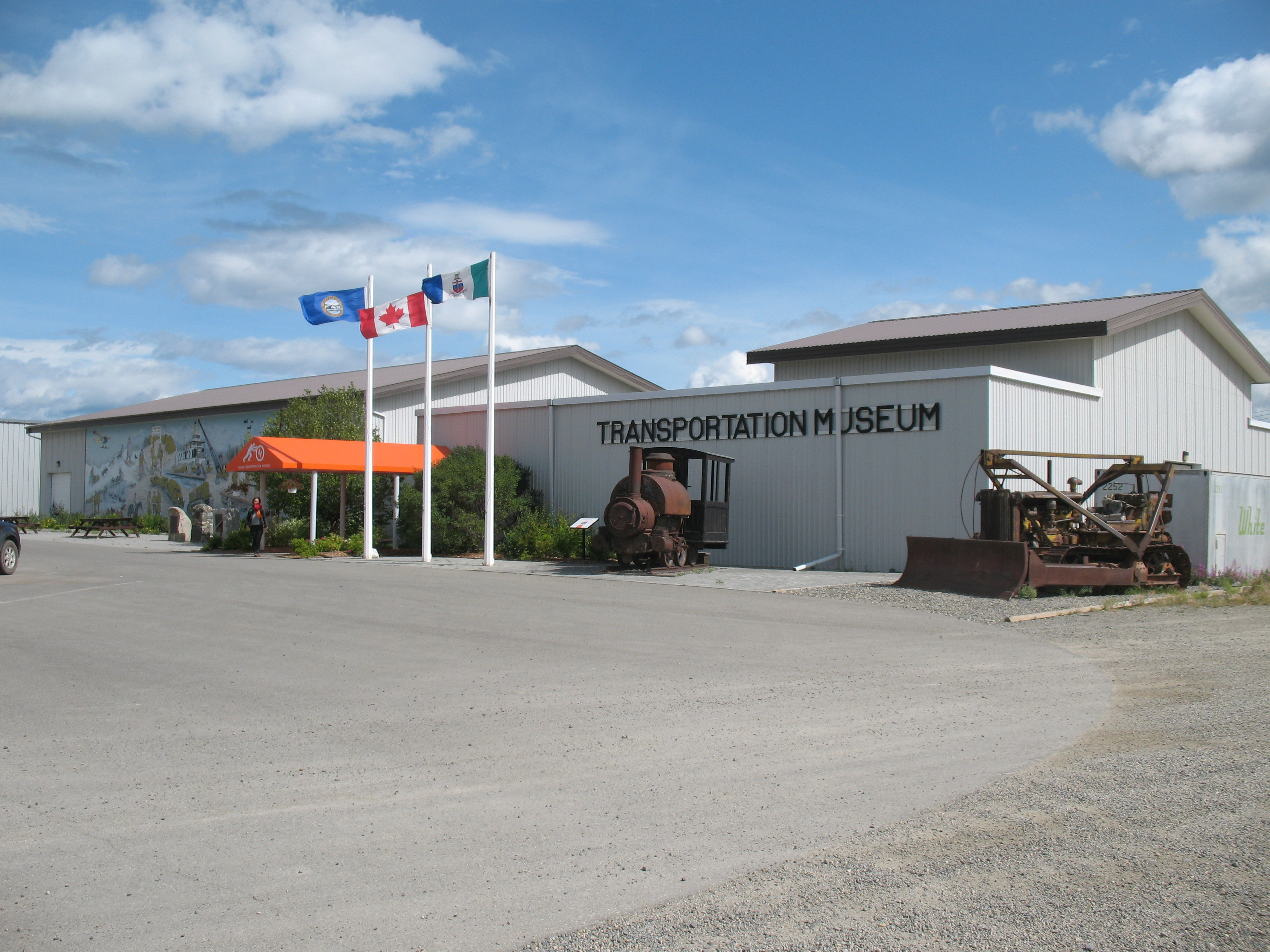 Transportation museum in Whitehorse, Yukon